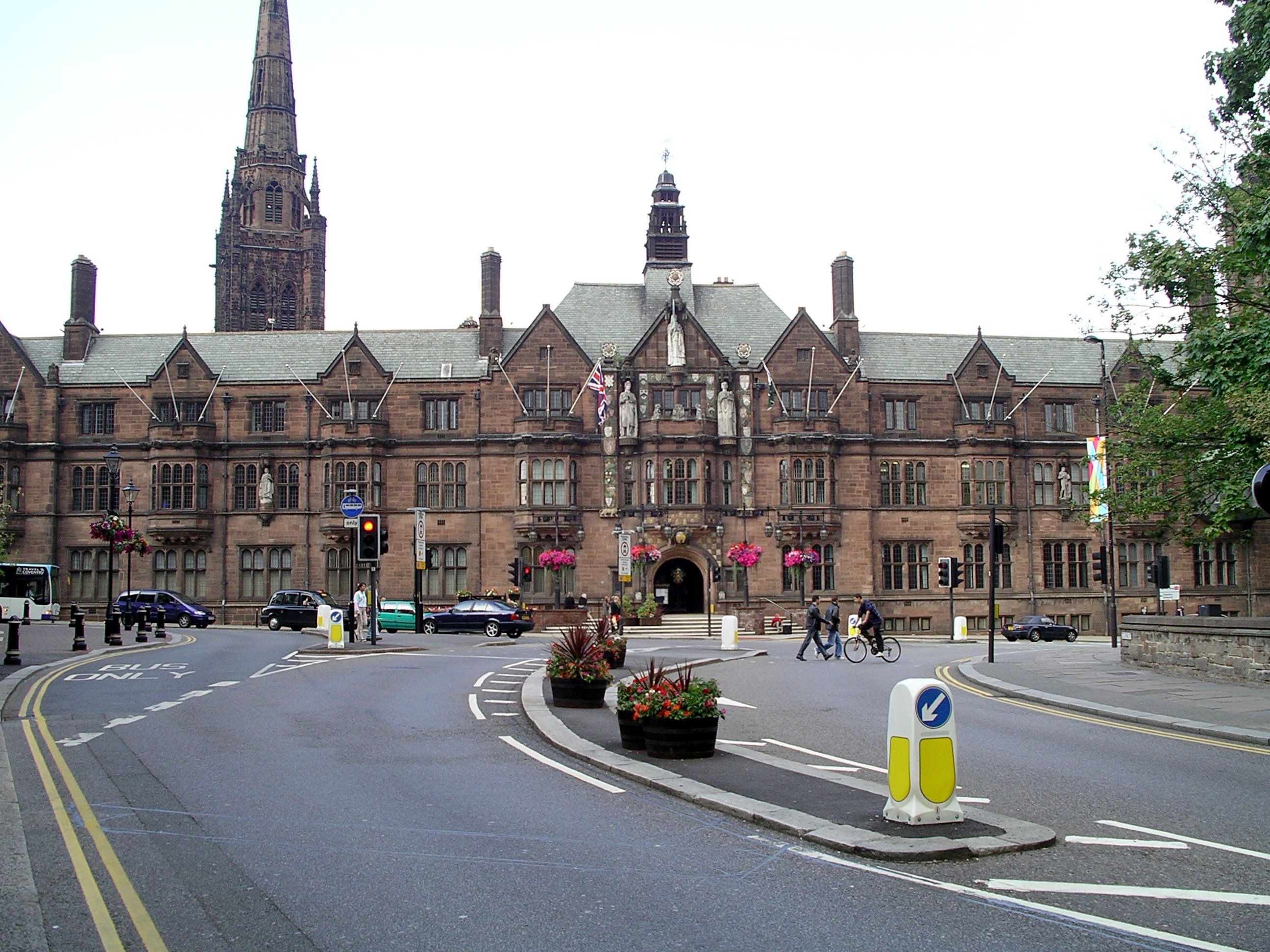 Picture taken by me on the afternoon of 14 August 2006. It is of the Coventry Council House, England.